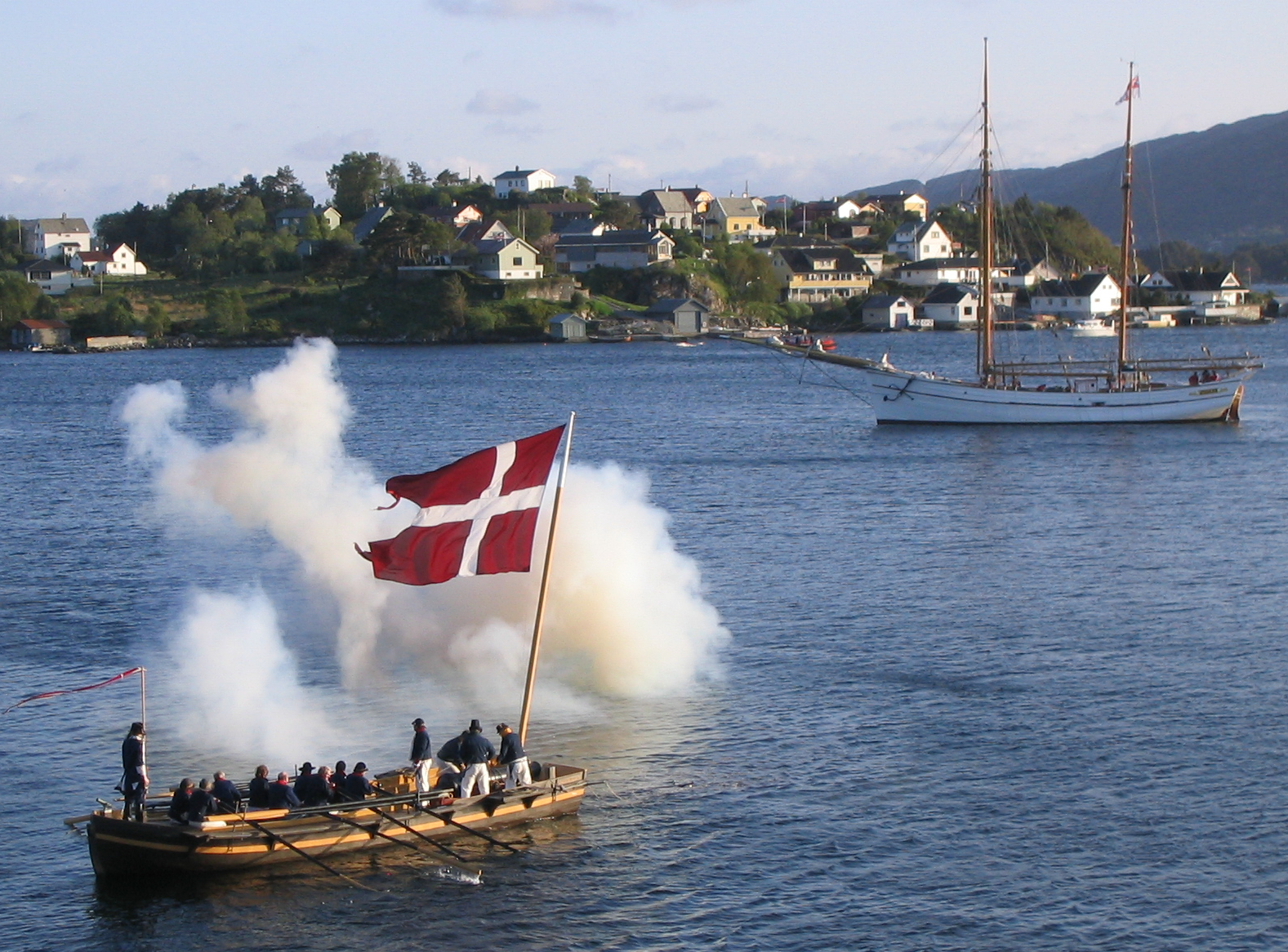 A reconstruction of the Battle of Alvøen, 16 May 1808, during the "Gunboat war" of 1807-1814. Alvøen is outside Bergen, western Norway. The reconstruction took place at 16 May 2008. The small gunboat in front is Øster Riisøer 3, identical to the type of boat used in the battle. The white ship flying british colours is the Norwegian ship Loyal, which at this event took the role as HMS Tartar, which nearly lost the battle in 1808, but managed to escape. The Norwegian gunboat is flying Danish colours, because Denmark and Norway were in a union at the time of the battle.